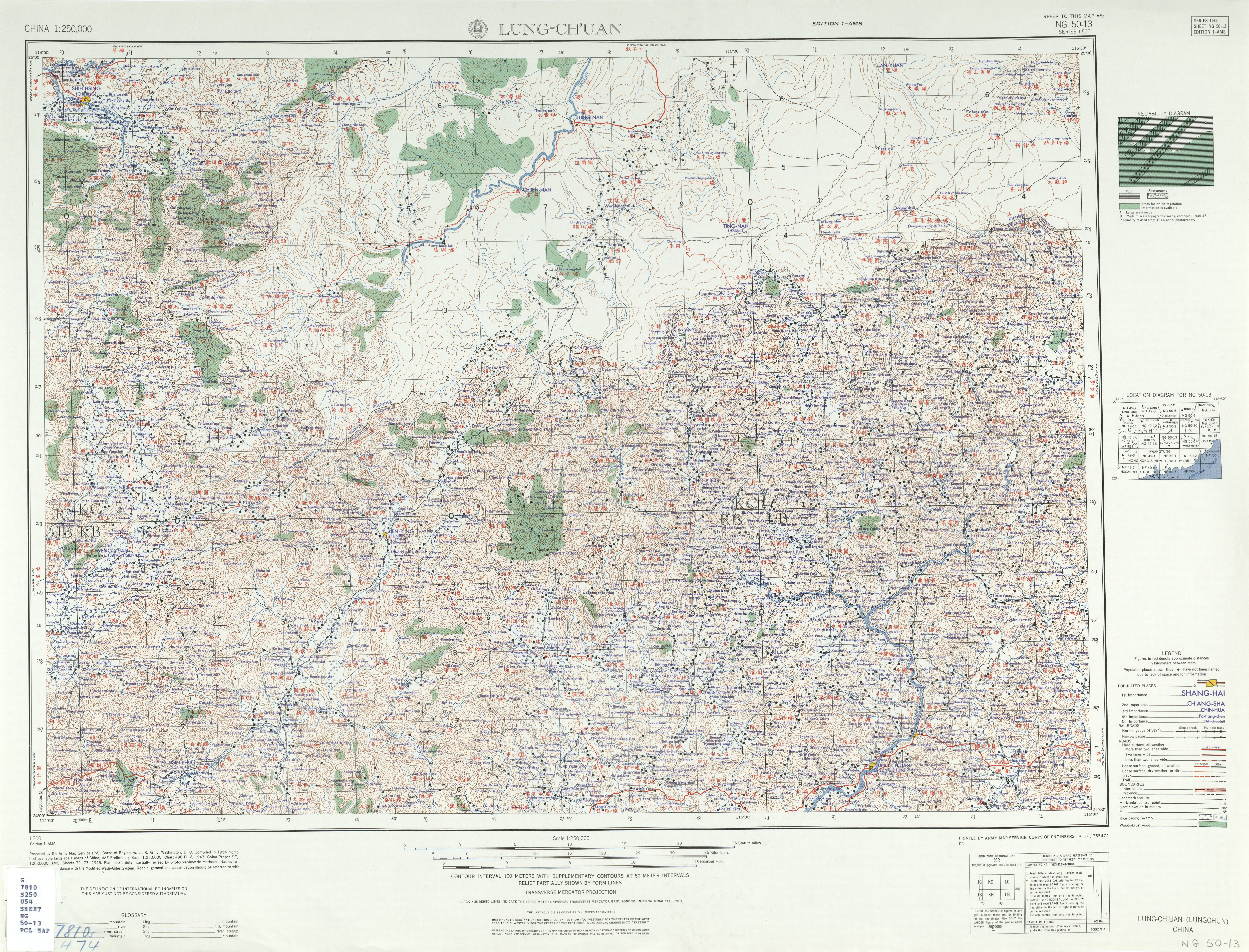 China AMS Topographic Maps